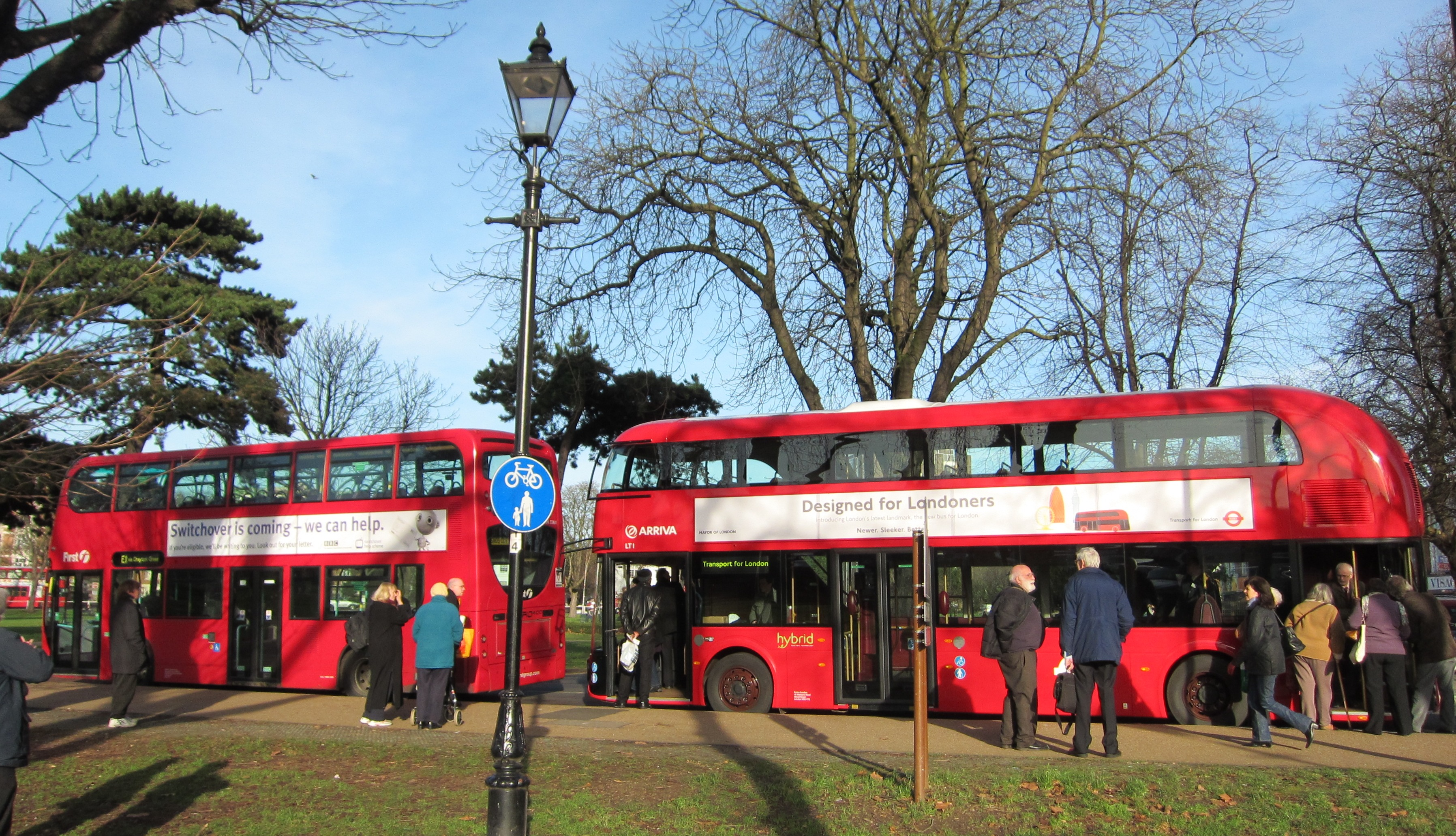 The bus terminus in Haven Green, Ealing, London. Infront is the normal scene of a First London bus DN33611 (reg. SN09 CGV), a 2009 Alexander Dennis Enviro400 operating route E1. Drawing the crowds however is 2011 built Arriva London bus LT1 (reg. LT61 AHT), the first of the batch of 8 pre-production working prototypes of the New Bus for London, parked here while on a tour around the city for public viewings, prior to entering trial revenue earning service on Arriva's London Buses route 38 as additional short worked extras. With DN33611 representing probably the most numerous new double-decker type entering London service at this time, and with LT1 conceived as a 21st century interpretation of the rear open platform design of the 1950s Routemaster, it's pretty hard to say which is the 'newer' bus in this scene.